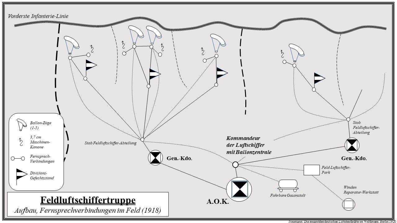 Structure and Communication Lines of German Field Balloon Service in WW1 (1918)